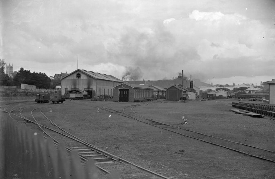 The Newmarket Workshops in Newmarket, Auckland City, New Zealand as seen in 1909. The spire of the university tower can be seen in the left-hand corner. Extended information on origin webpage reads: Newmarket Railway Workshops, Auckland / 1909 / Reference number: APG-2024-1/2-G / 1 b&w original negative(s). Dry plate glass negative 4.75 x 6.5 inches. Horizontal image. / Part of Godber, Albert Percy, 1875-1949 :Collection of albums, prints and negatives (PA-Group-00048) Photographic Archive / Scope and contents: View of the Newmarket Railway Workshops in 1909. Photographed by Albert Percy Godber. / Historical notes: An original print of this image is in Godber Album Vol 110, p 31 (PA1-q-103) / Access Conditions governing access: Partial restriction - Negatives are not available for viewing. Surrogate copies will be provided.